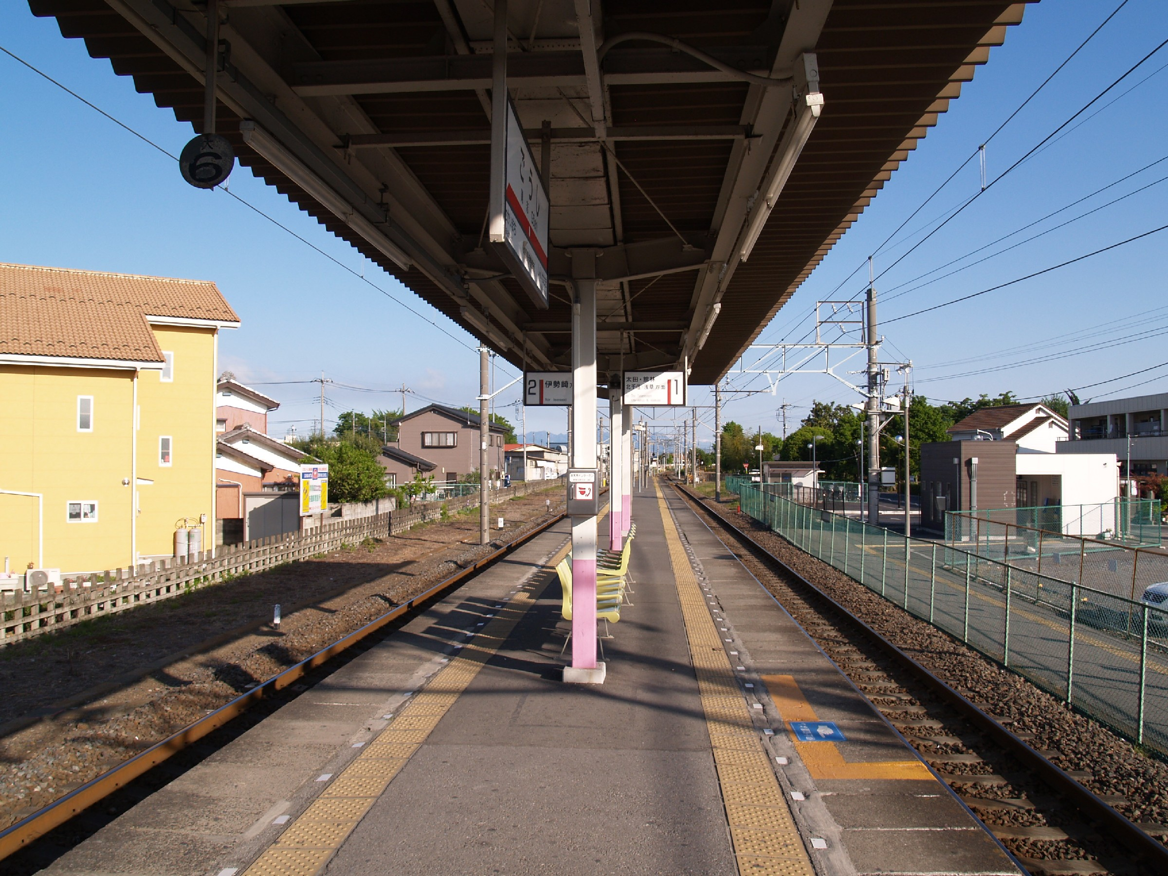 Goshi Station platform